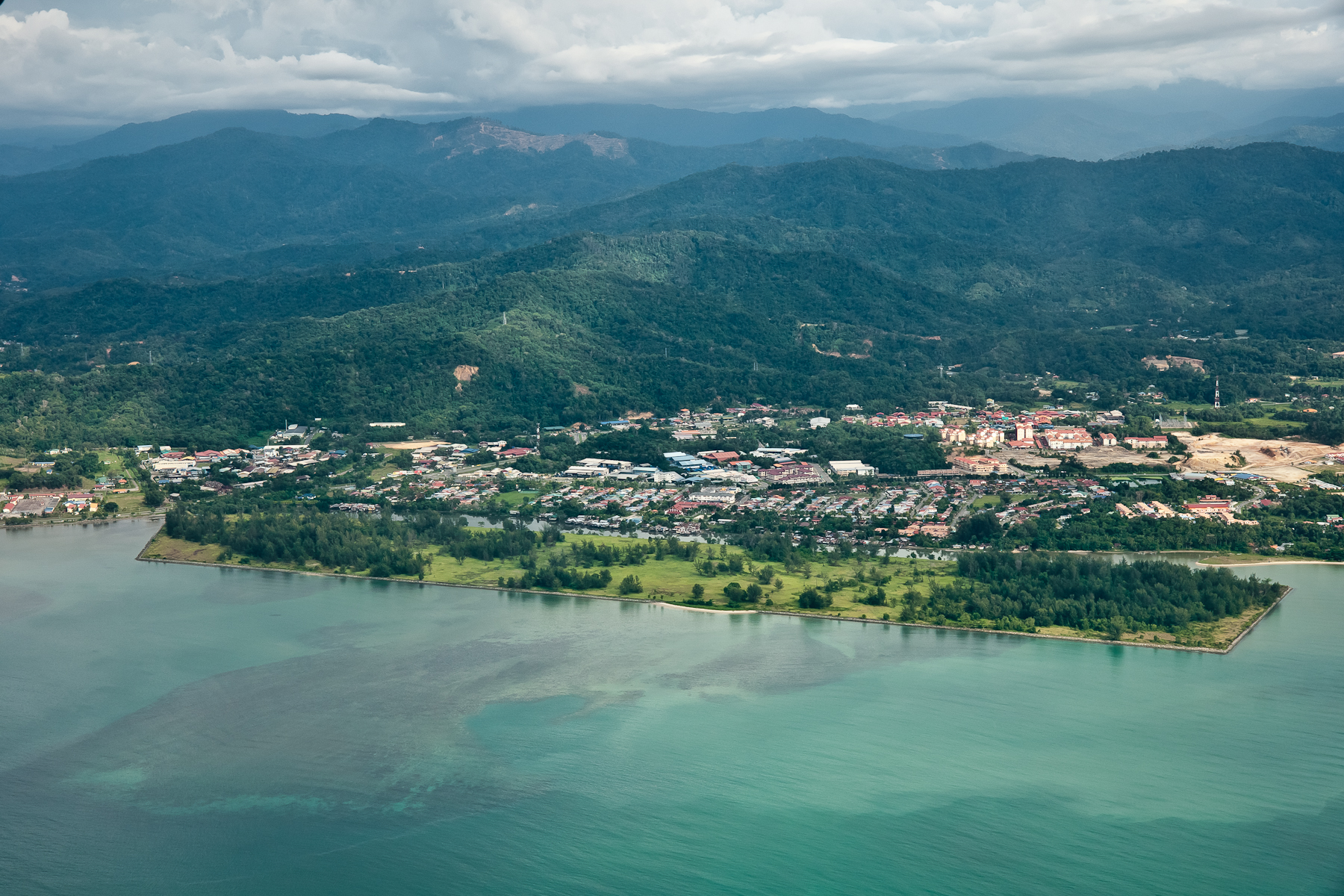 Putatan, Aerial View of Kampung Lok Kawi